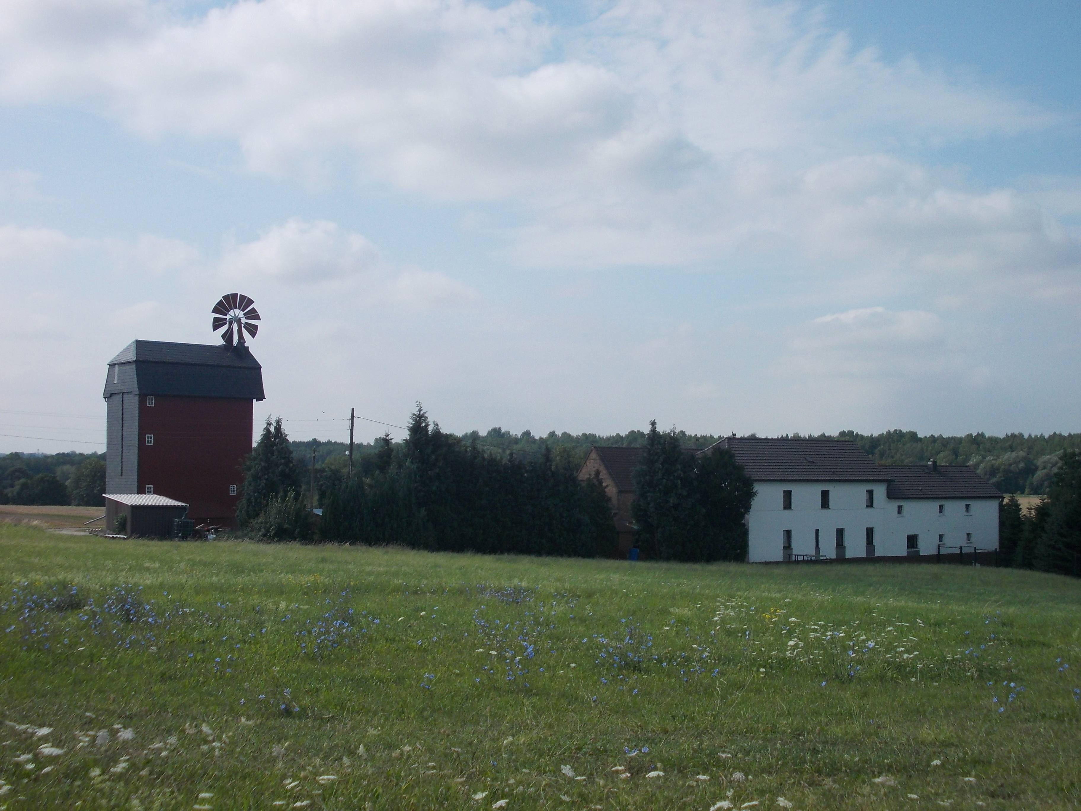 Paltrok mill in Söhesten (Lützen, district: Burgenlandkreis, Saxony-Anhalt)